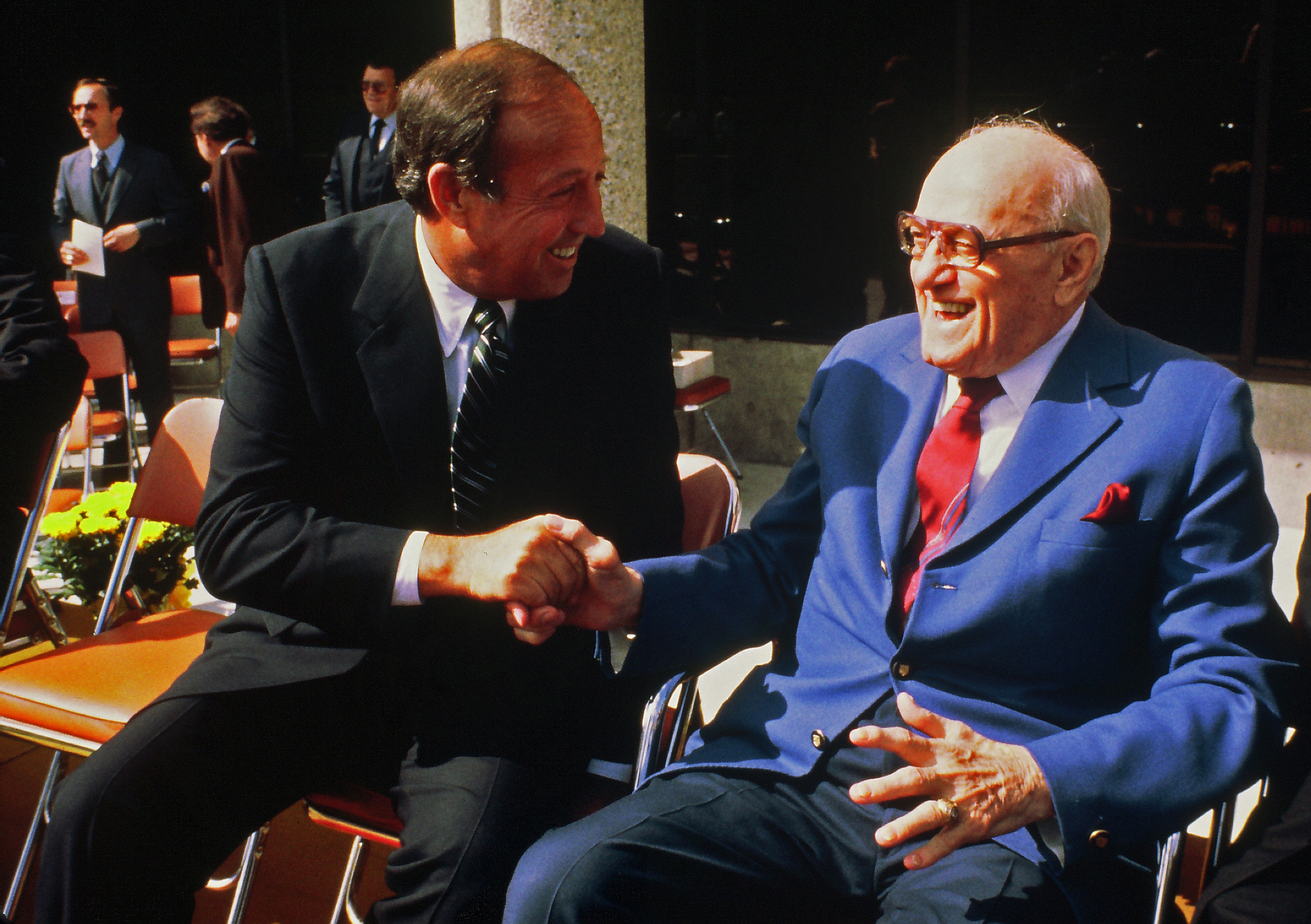 Pete Rozelle and George Halas. image The picture was taken at the dedication ceremony of the George S. Halas, Jr. Sports Center, on the Campus of Loyola University Chicago.